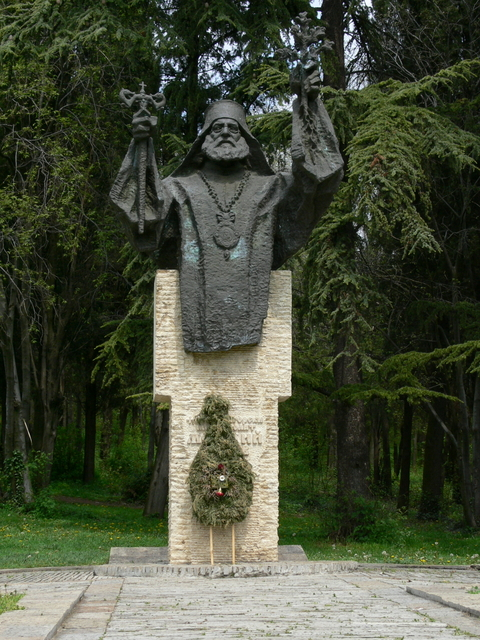 Monument to Metropolitan Metodi Kussev in the Ayazmoto Park, Stara Zagora, Bulgaria. Metropolitan Metodi Kussev initiated the establishment of the park in 1895.